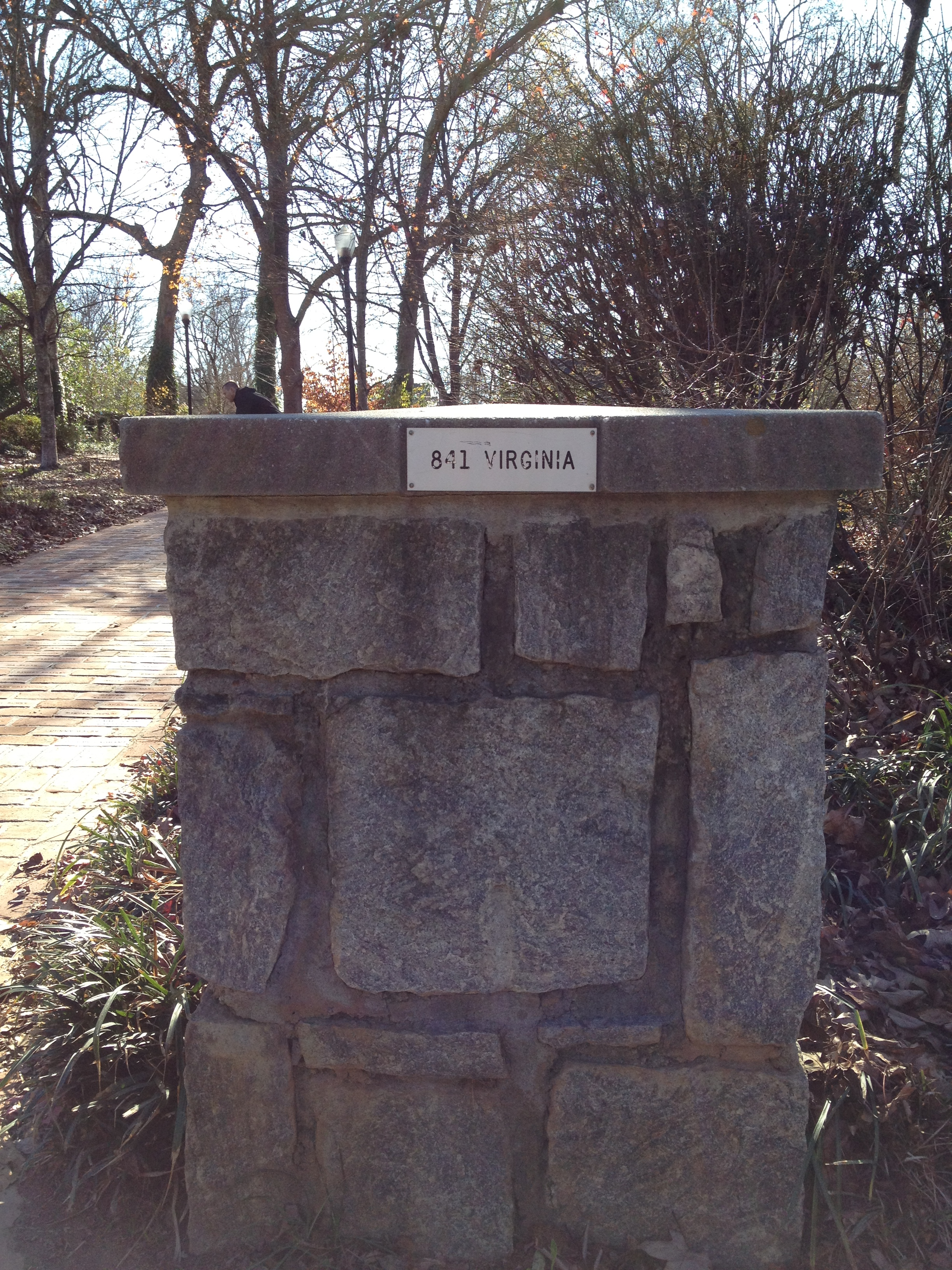 Memorial column commemorating razed houses, John Howell Park